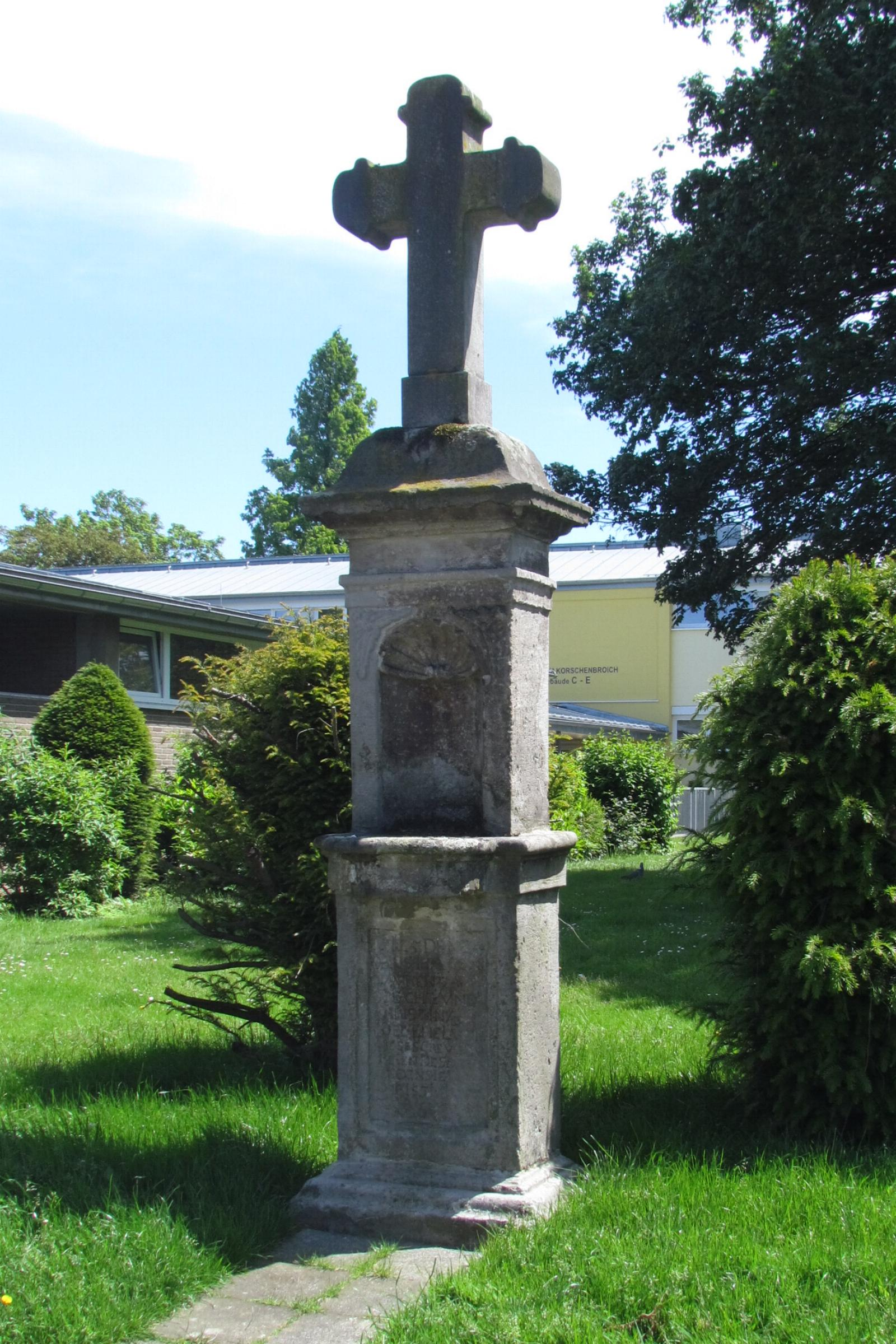 This is a photograph of an architectural monument.It is on the list of cultural monuments of Korschenbroich